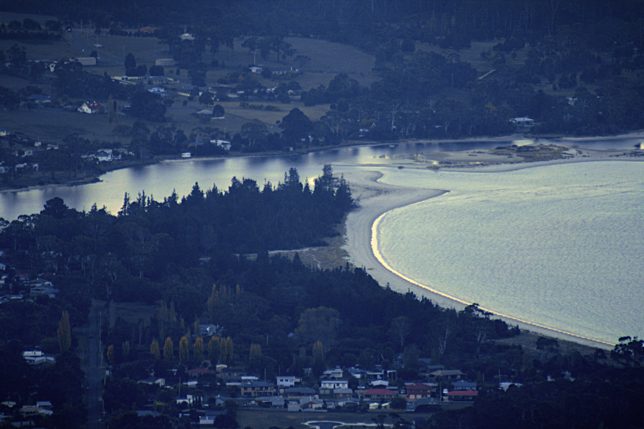 Township of Orford, Tasmania at dusk from The Thumbs lookout. Photo by Ben Wells, B+W Design